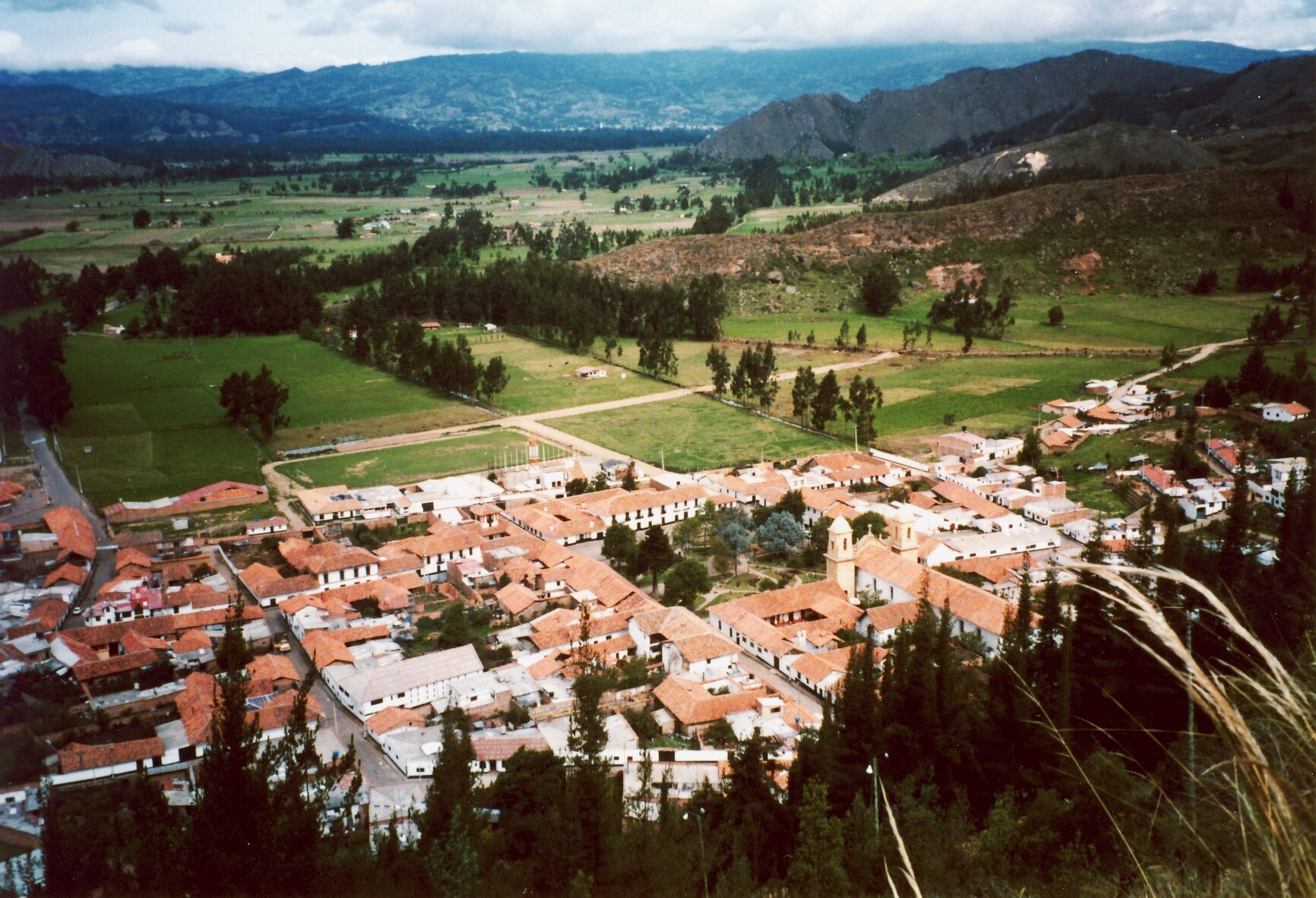 Panorama of Cucunubá, Colombia